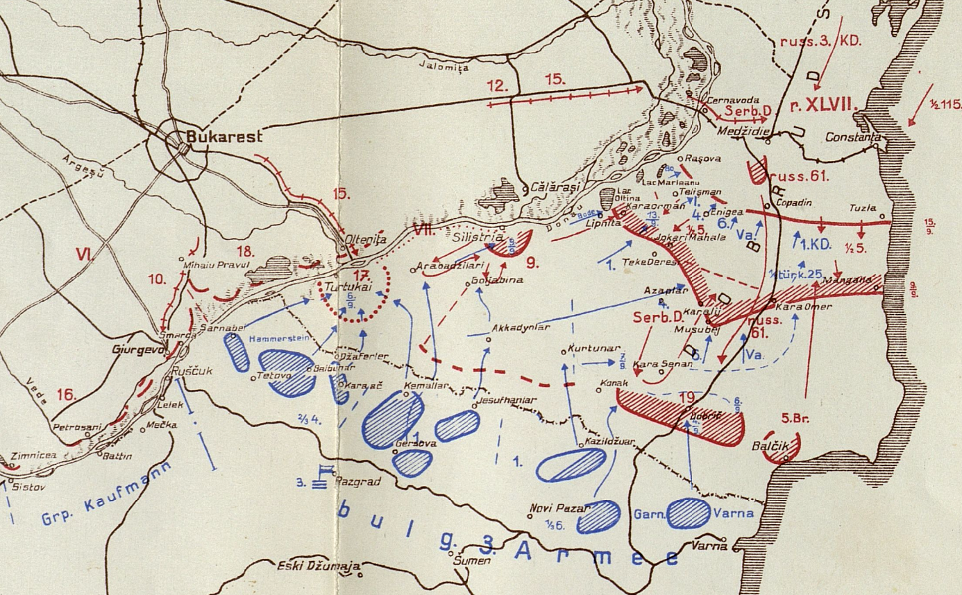 Romanian Front in WWI - The first phase of the battles from Dobrogea, september 1916